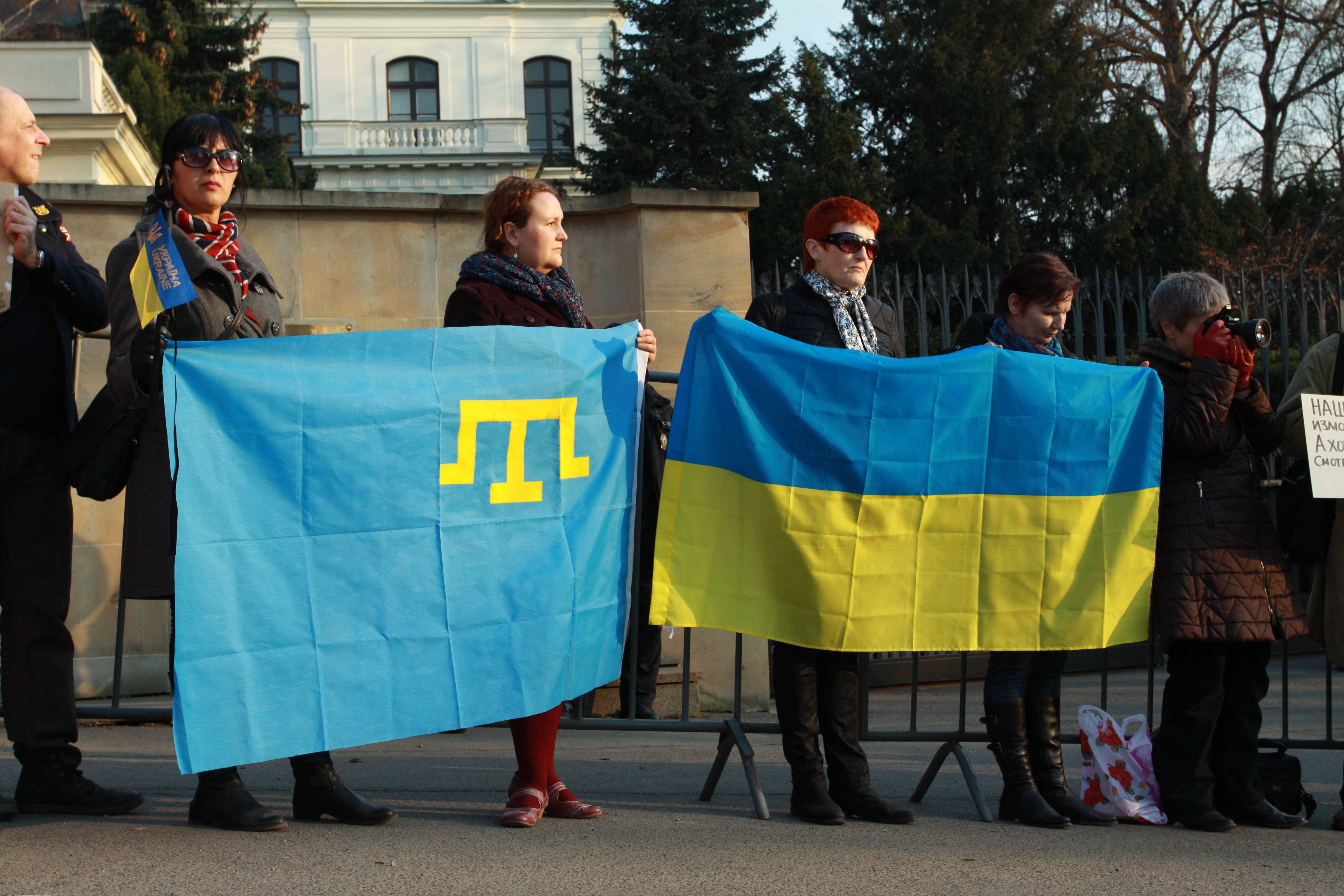 Support rally for Euromaidan and against occupation of Crimea by Russian army in Prague, rally took place before Russian ambasy, Czech Republic, 2nd of March, 2014 - Google Maps - Google Earth